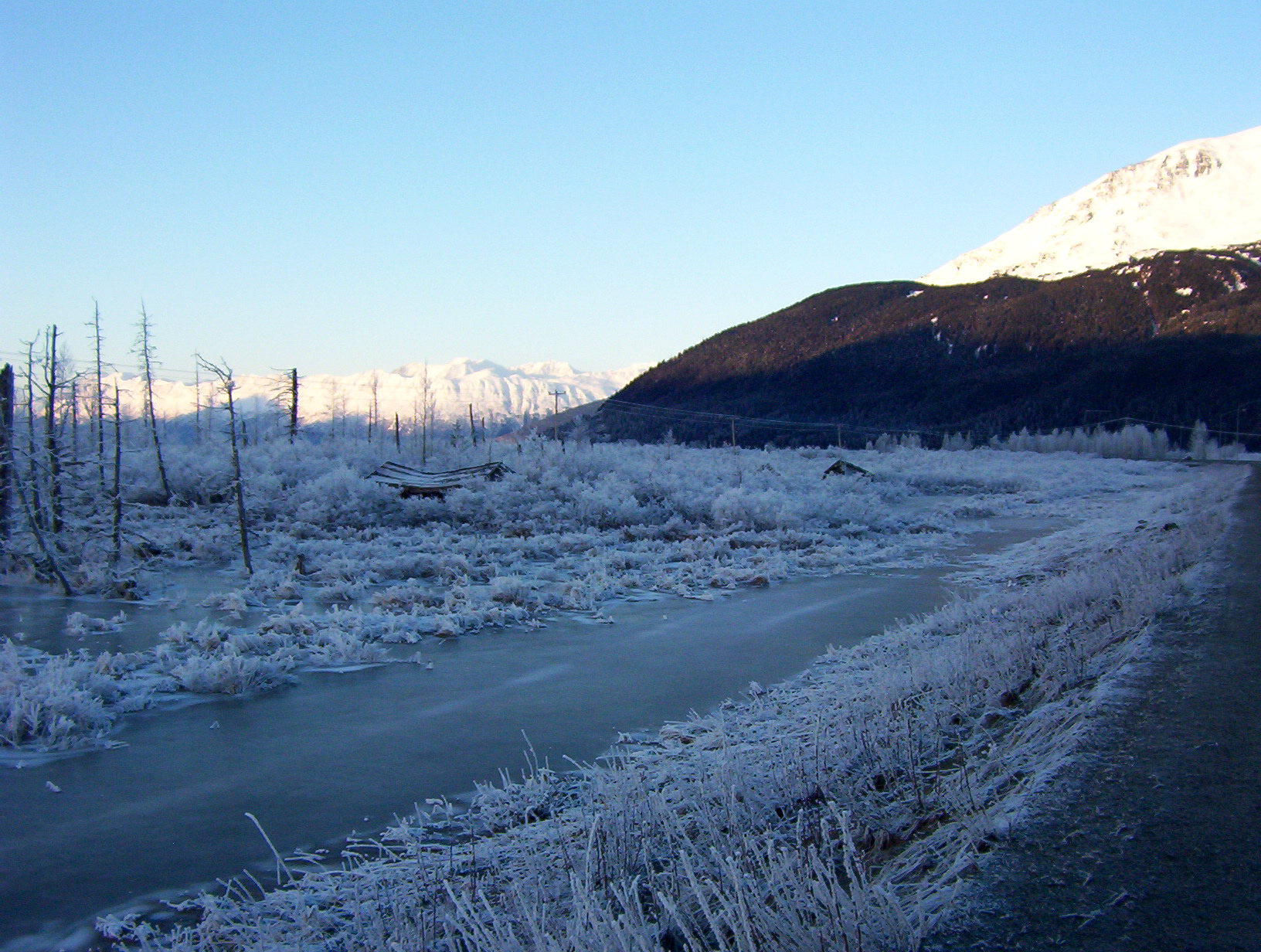 The ruins of the former town of Portage, Alaska seen from the Seward Highway with "ghost forest" of dead spruce trees.